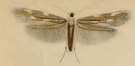 Stainton’s Natural History of the Tineina (1855–1873): Bucculatrix nigricomella